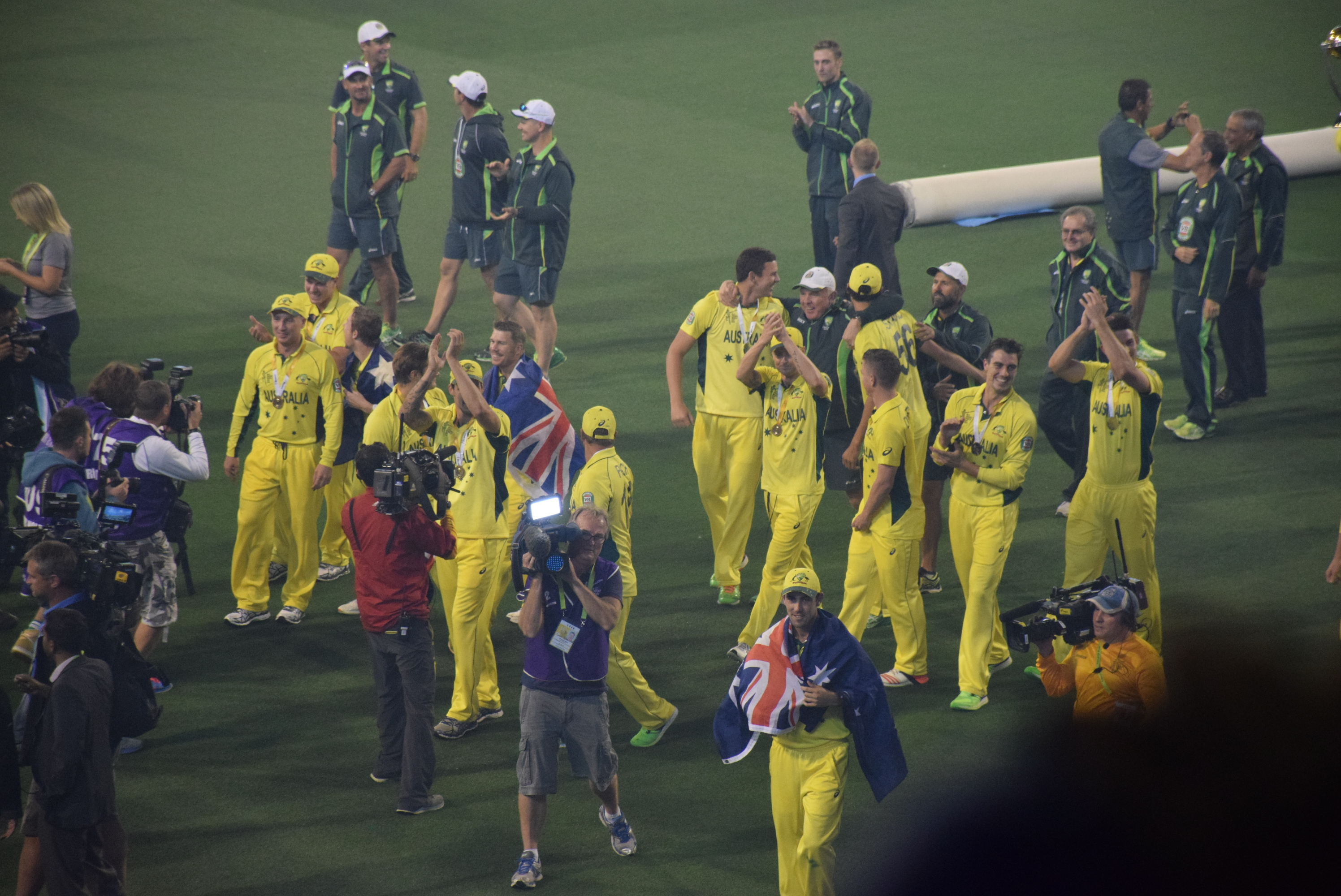 Cricket World Cup Final 2015